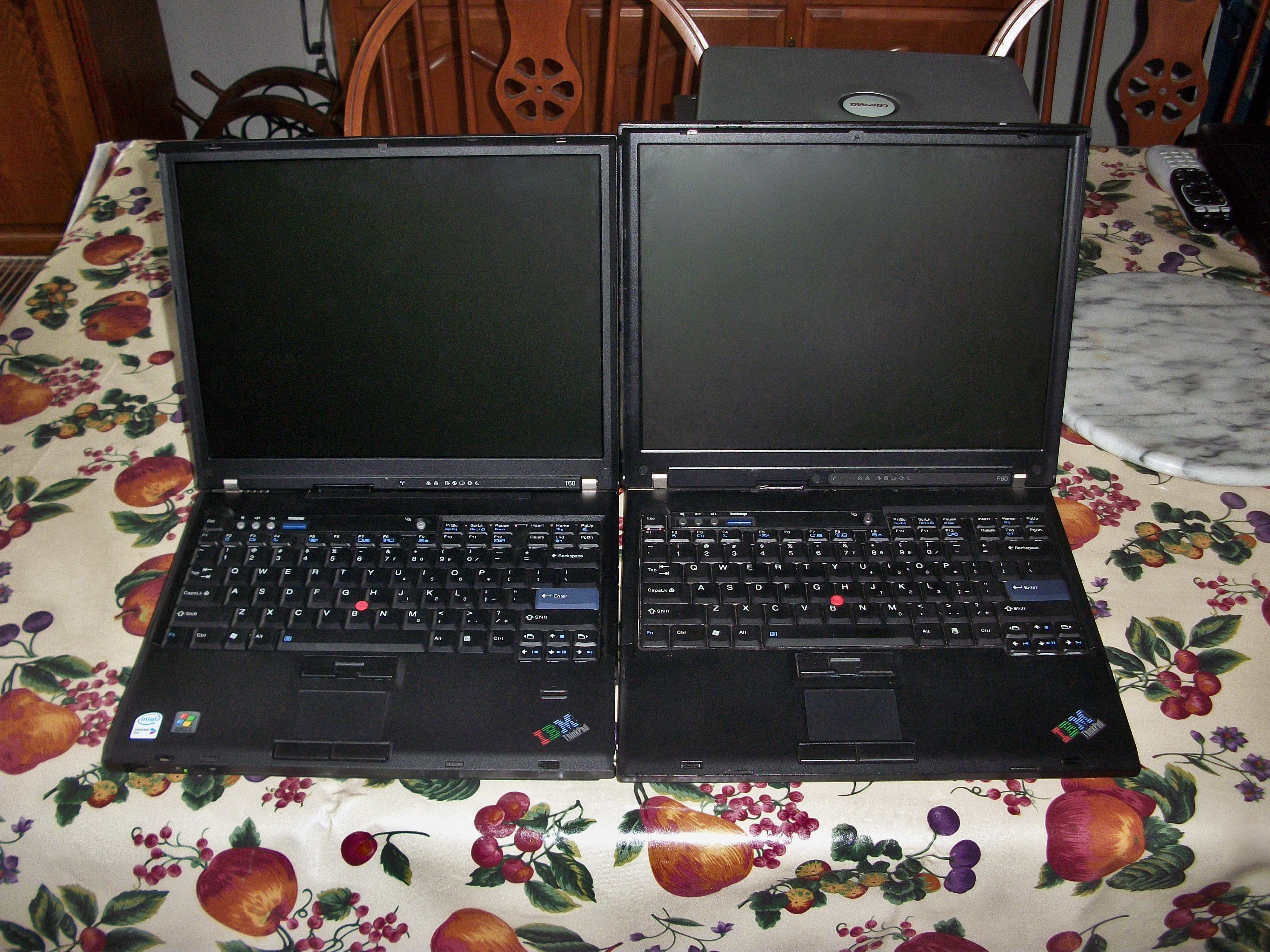 An IBMK Thinkpad T60 andR60.